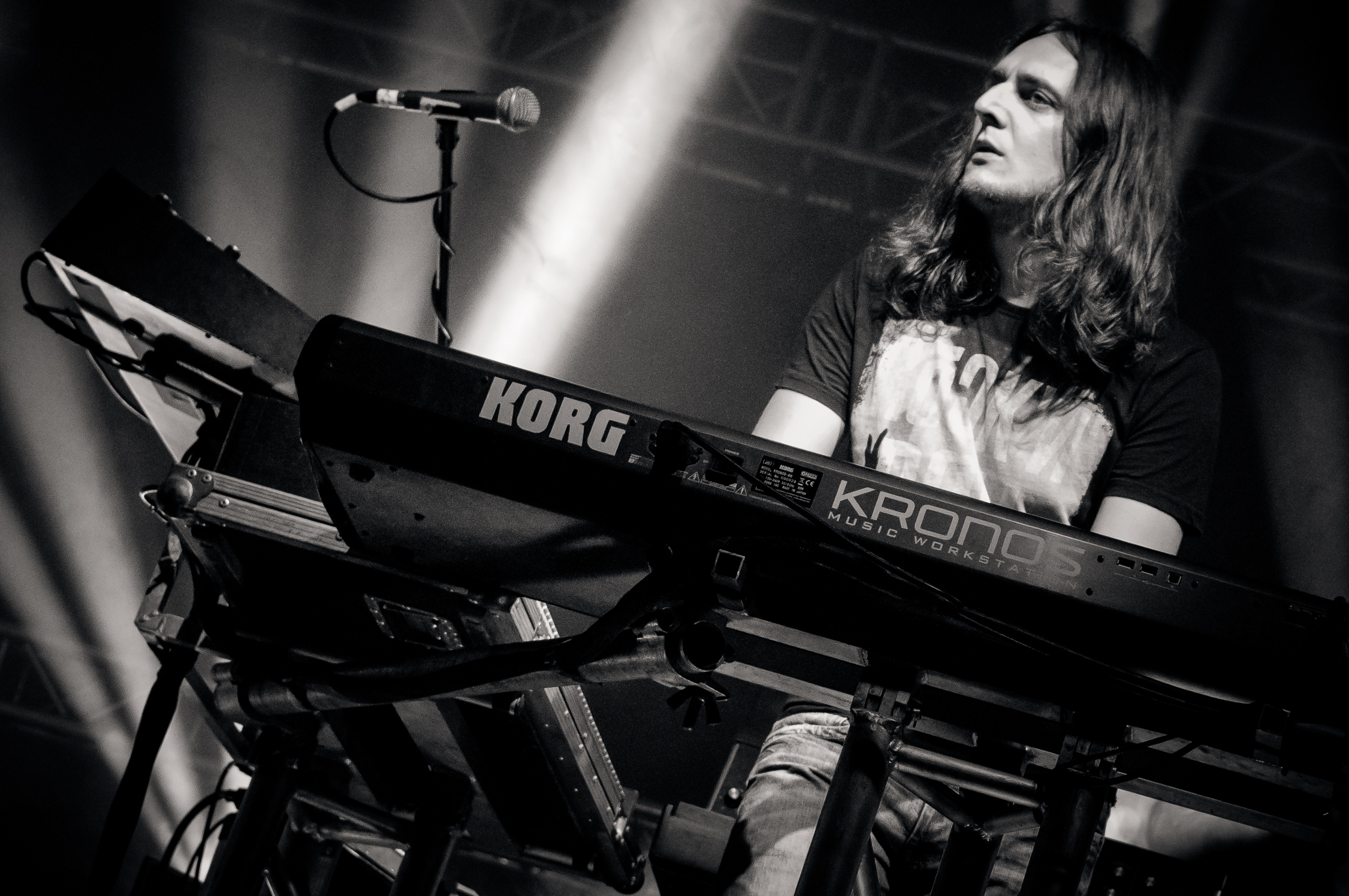 Michał Łapaj at Summer Dying Loud Festival, 2014